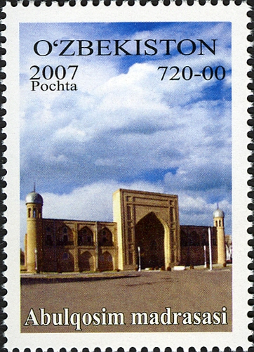 Stamps of Uzbekistan, 2007